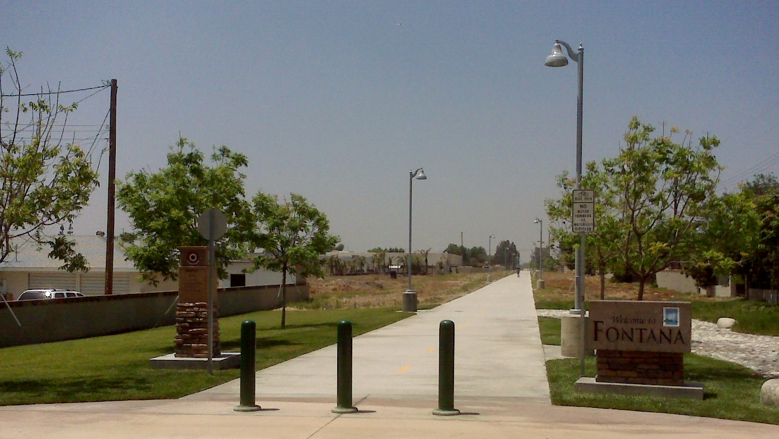 View from Rialto of the Pacific Electric Inland Empire Trail — Fontana, California.